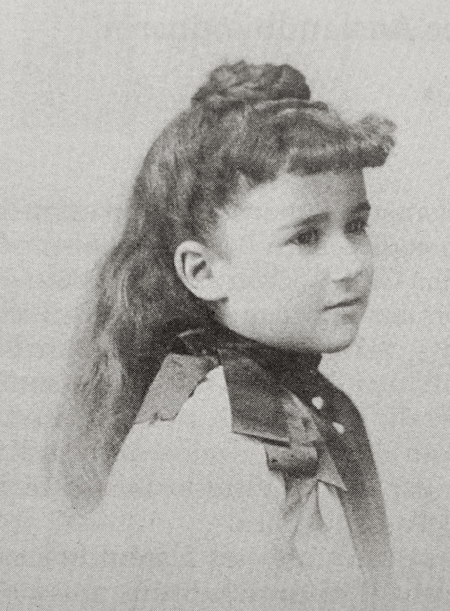 Maria Carmi als Kind in Florenz